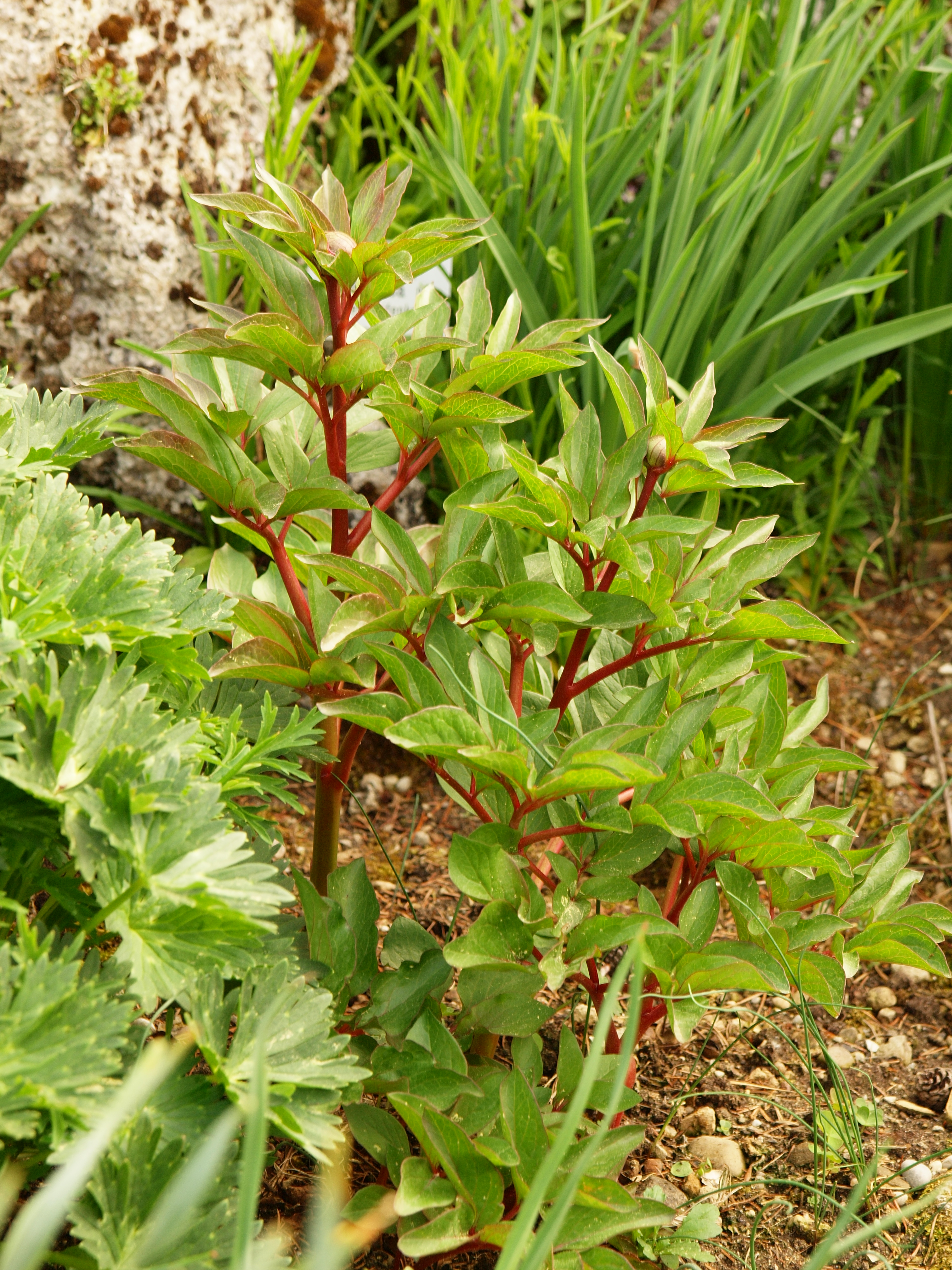 Paeonia cambessedesii